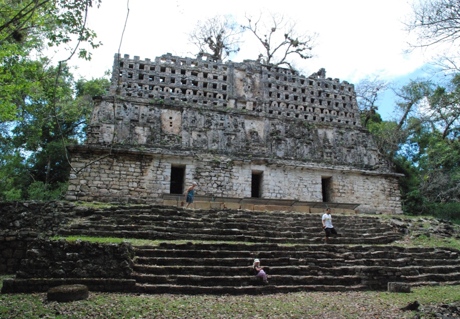 Yaxchilán Templo Mayor